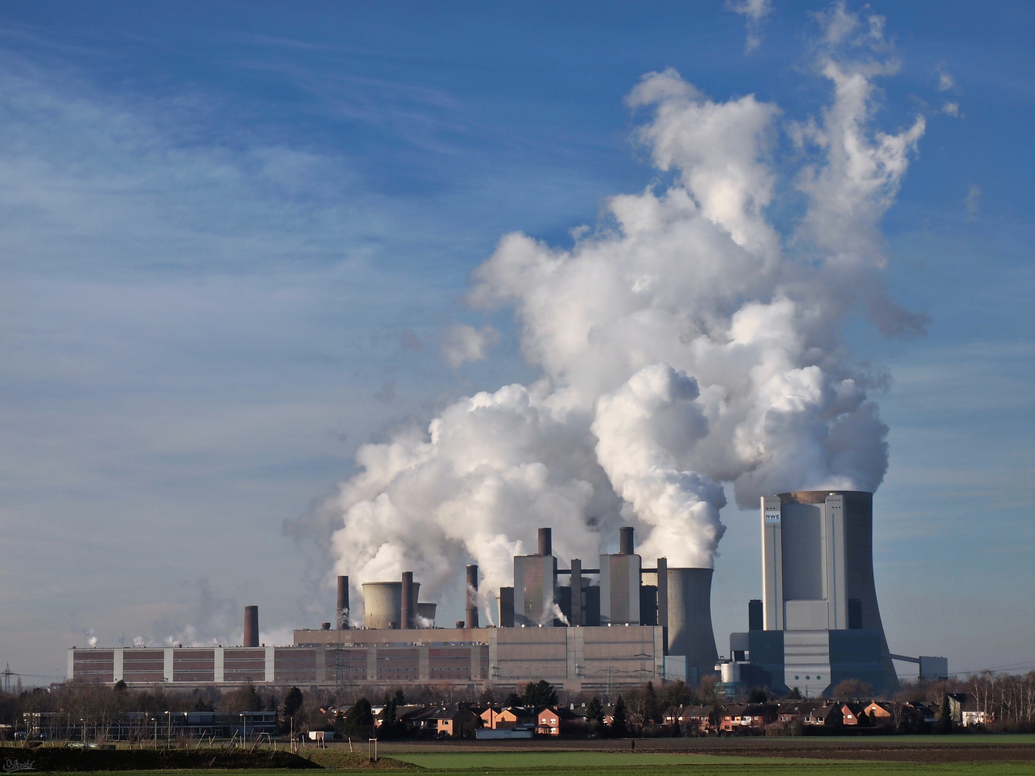 Powerplant Niederaußem